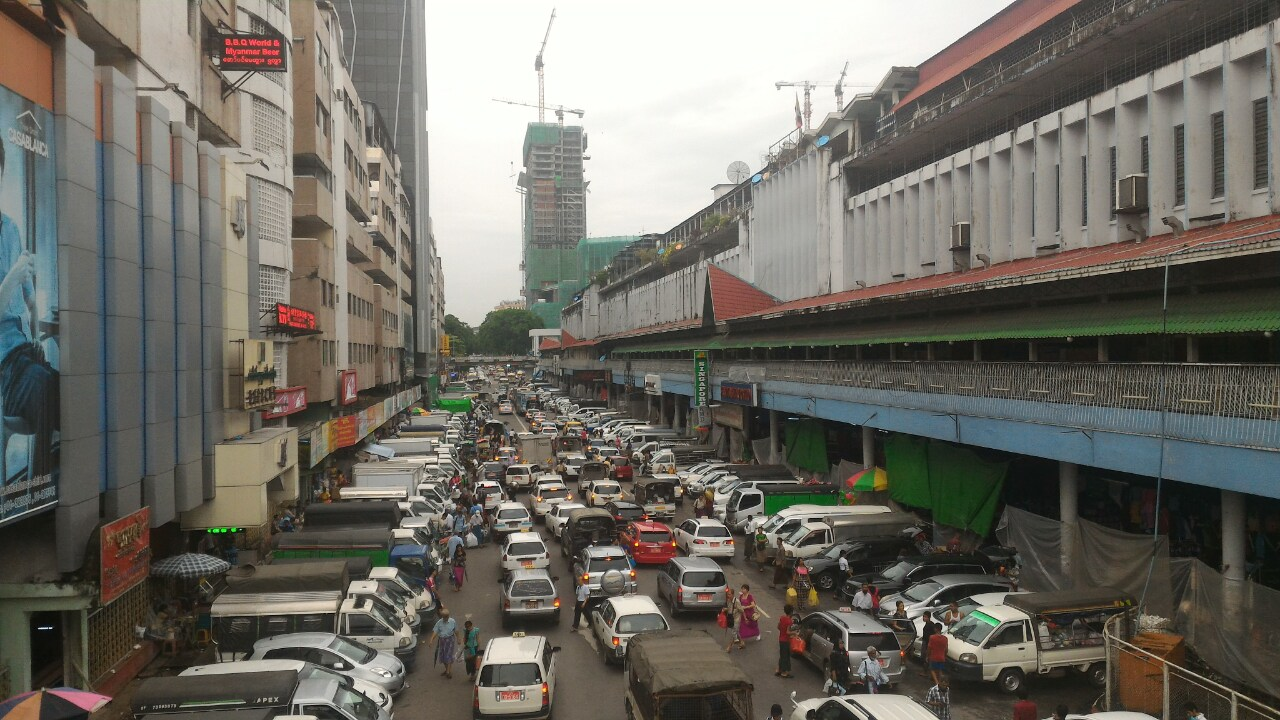 Theingyi Market Shwedagon Pagoda Road